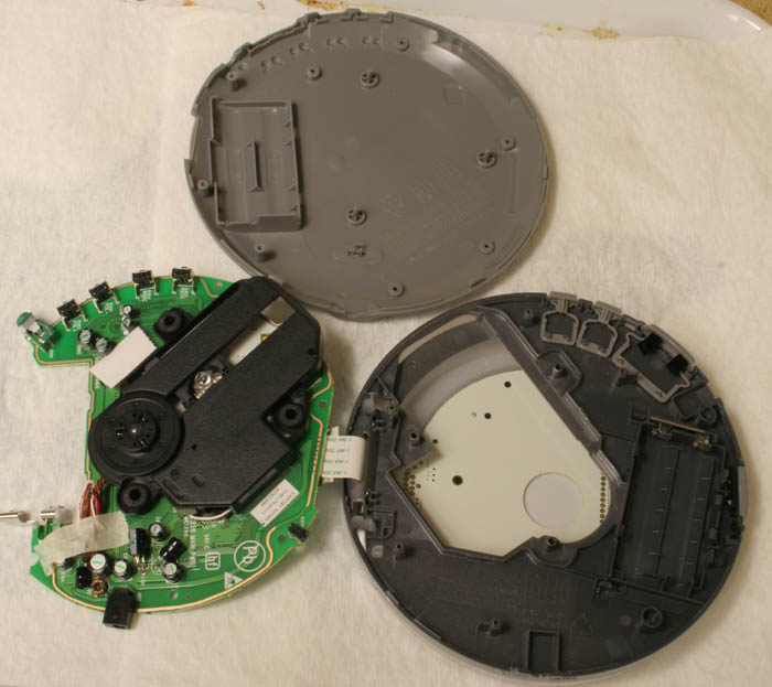 Philips portable CD player. Model EXP2582.